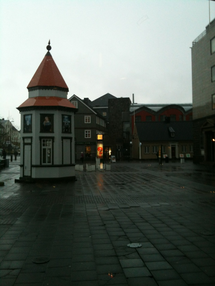 Lækjartorg, Reykjavík, Iceland.